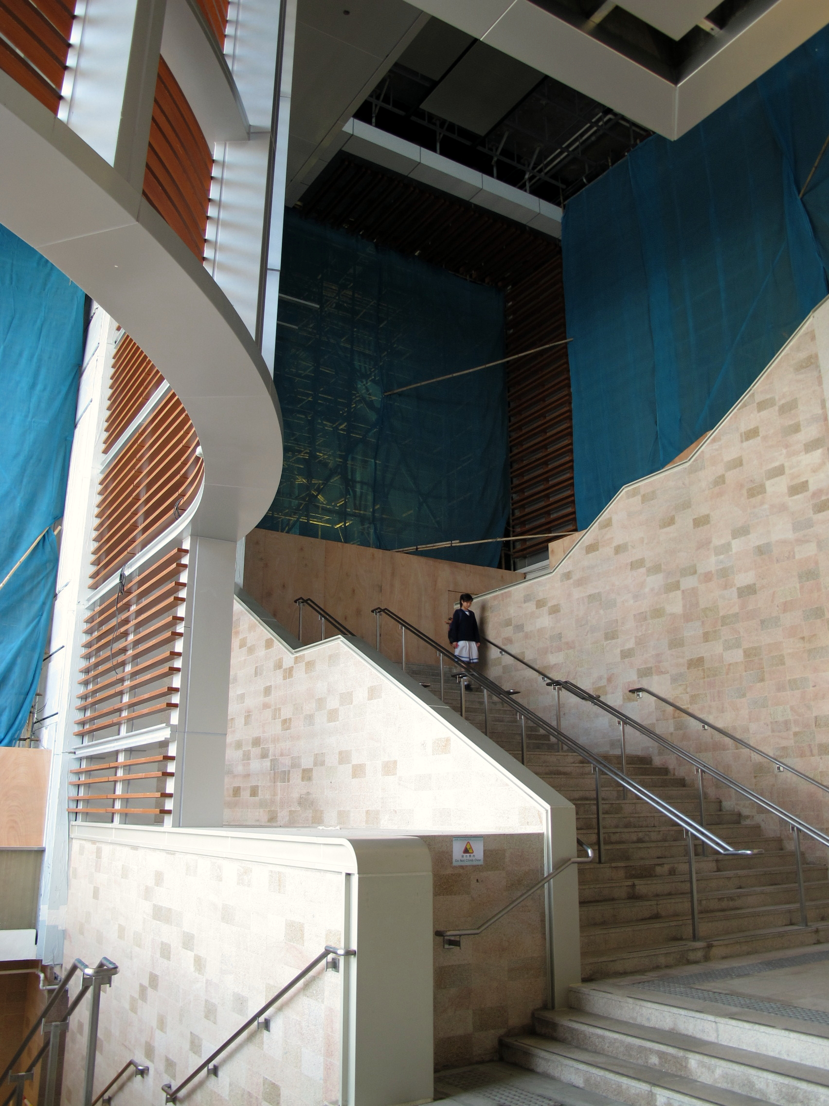 HK Festival City Stairs for Schools 名城公共設施專用樓梯